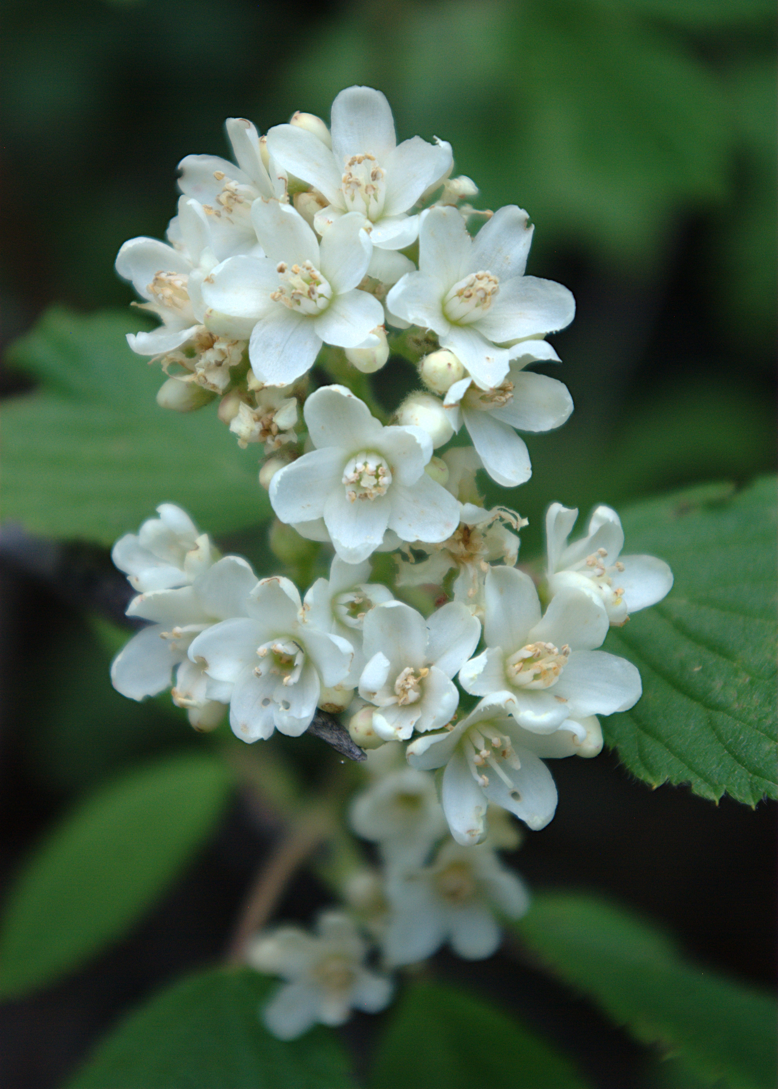 Jamesia americana ([fivepetal] cliffbush, cliff jamesia, mountain mockorange, wild hydrangea, waxflower), variety americana by range, Forest Road 144, Rio Arriba County, New Mexico, 36.00457° N, 106.32650° W, altitude 2471 m (8108 feet). Thanks to Dale Mangin for GPS and Melburnian for identification.